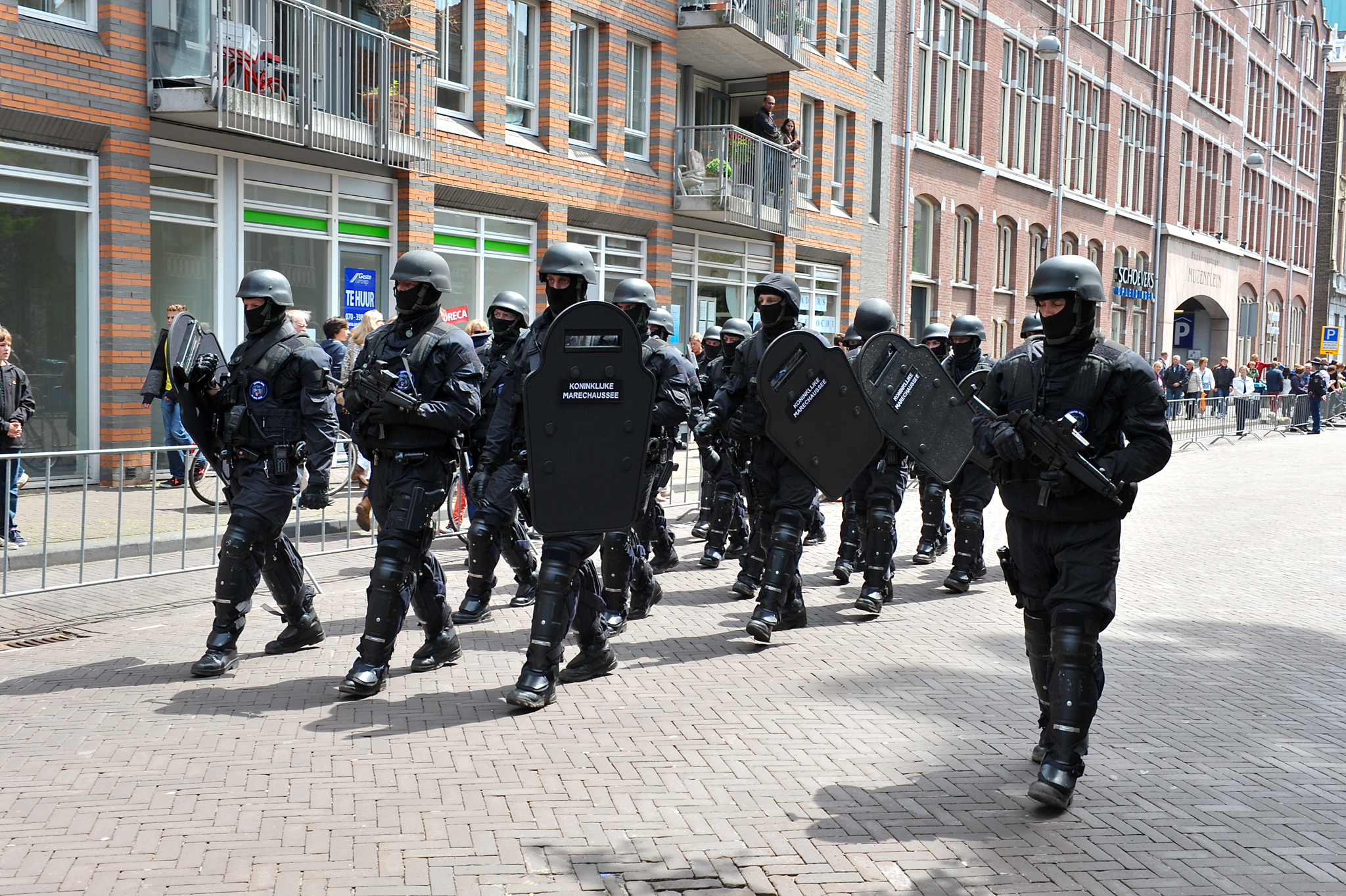 Brigade Speciale Beveiligingsopdrachten of the Koninklijke Marechaussee during Veterans Day 2013.